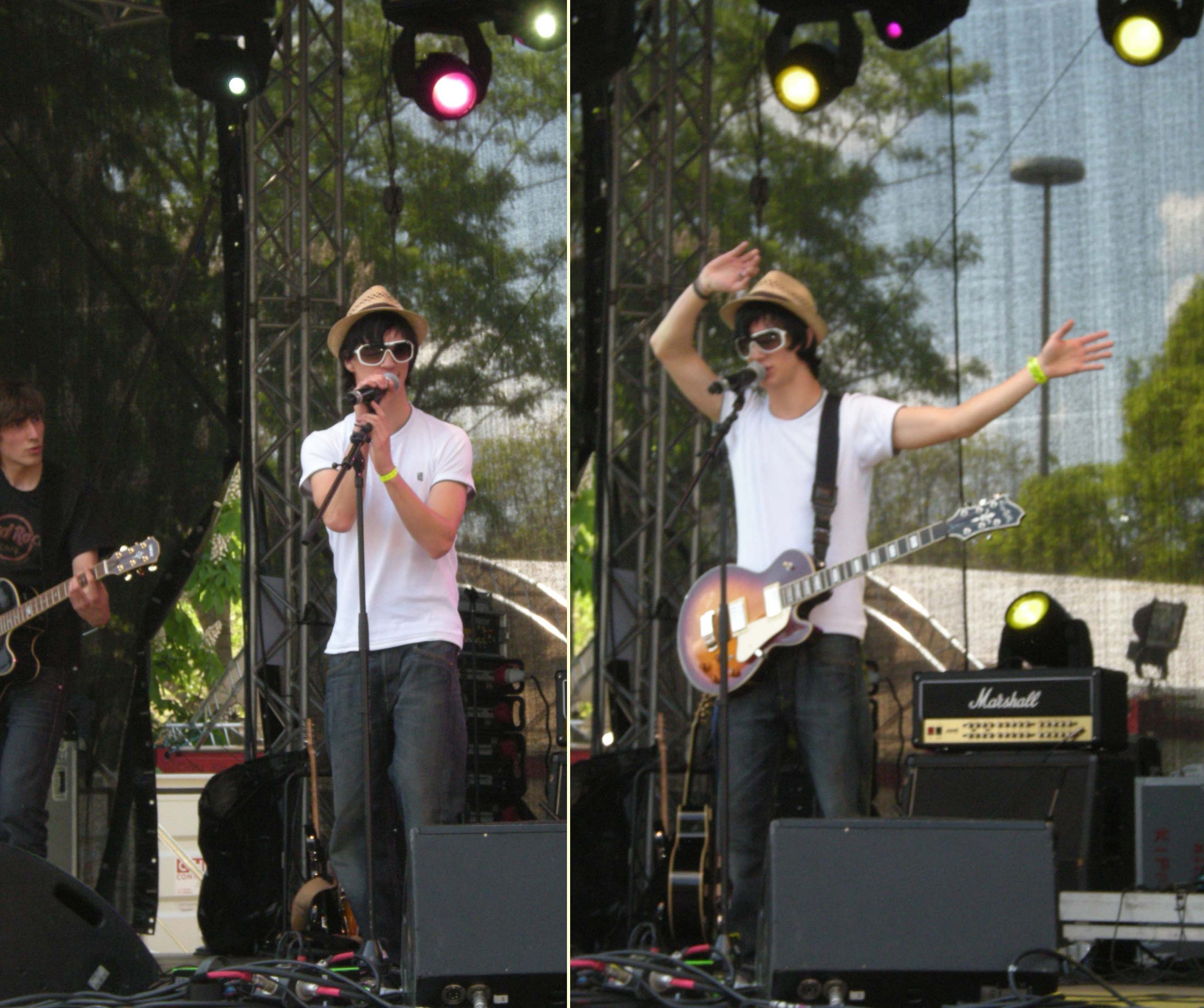 Mario Lang performing on "Kaiserwiese" stage (Prater, Vienna). This event was due to opening a new section of Vienna's Subway line U2, which, by reason of EURO '08, from now on connects Ernst-Happel-Stadion with the center of the city.